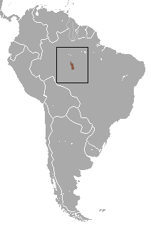 Rio Acari Marmoset (Mico acariensis) range